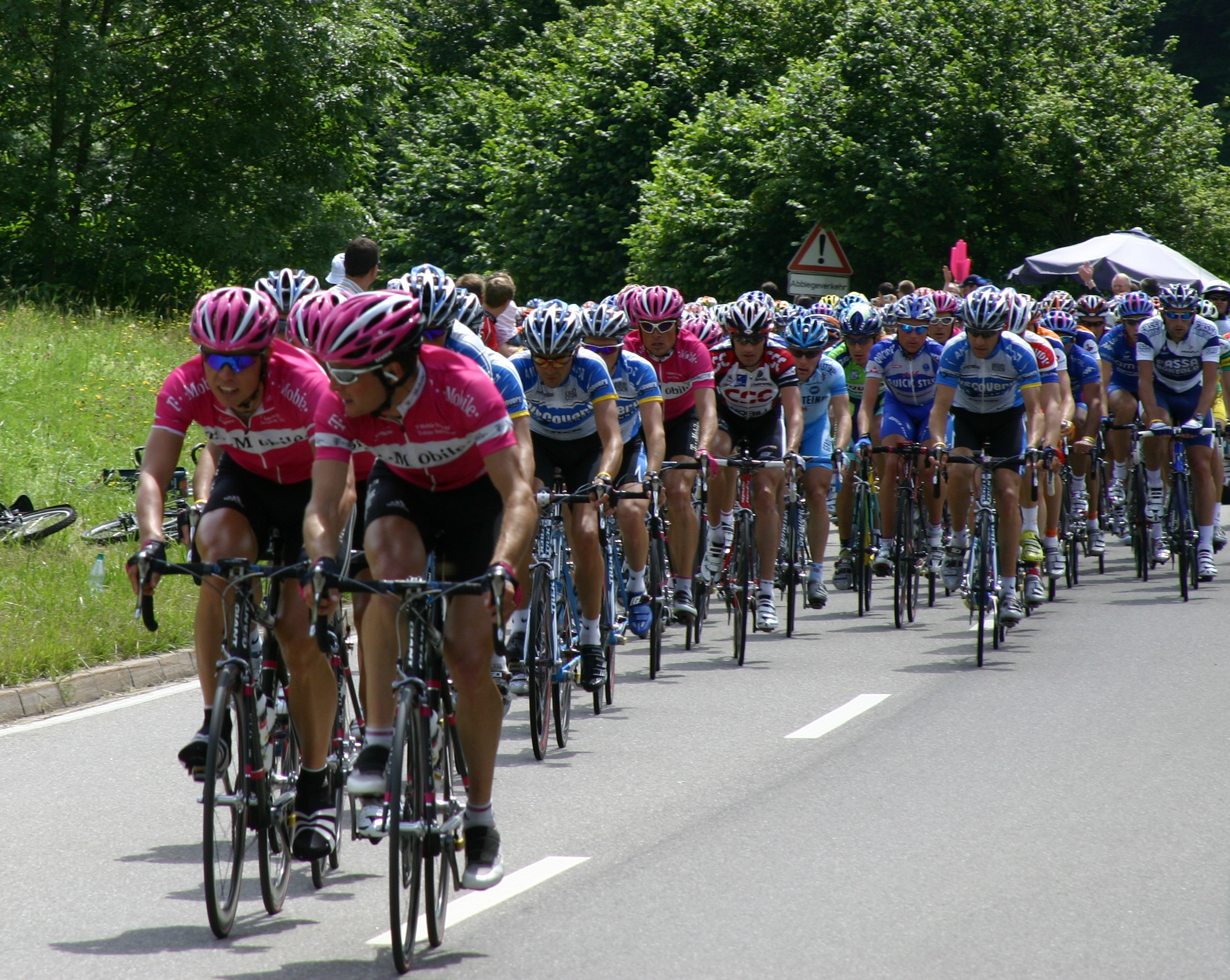 The Peloton of the Tour de France, 9th of July 2005 at the begin of the ascend to Cote de Bad Herrenalb. Jan Ullrich (Deutsche Telekom) at about the 10th position (before the CSC rider, Basso?). Levi Leipheimer is behind the CSC rider.